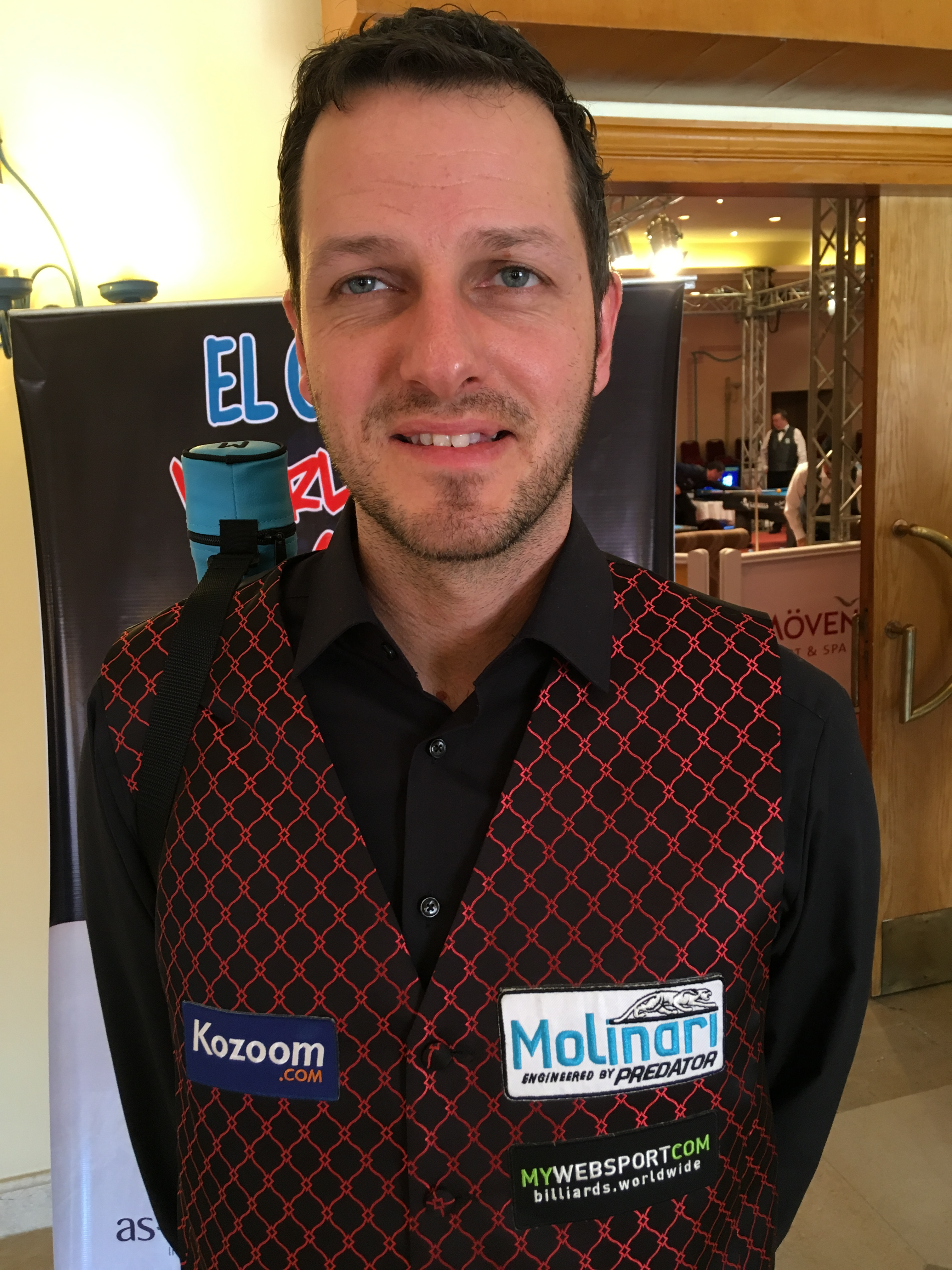 see file name